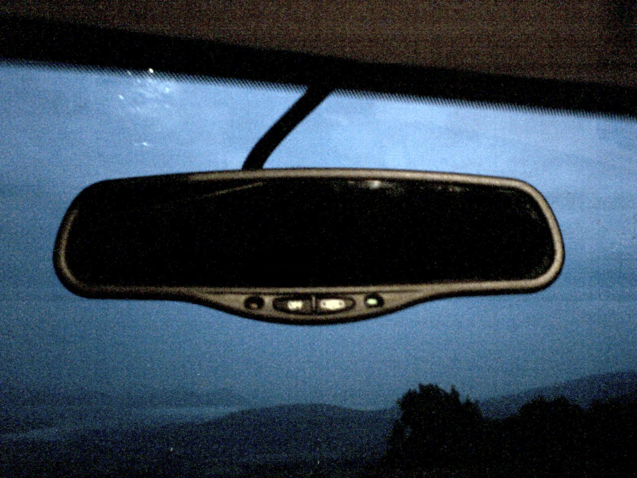 A Gentex auto-dimming mirror, as seen in a 2004 Mercury Sable LS. Photo by Ben Schumin on June 8, 2006.